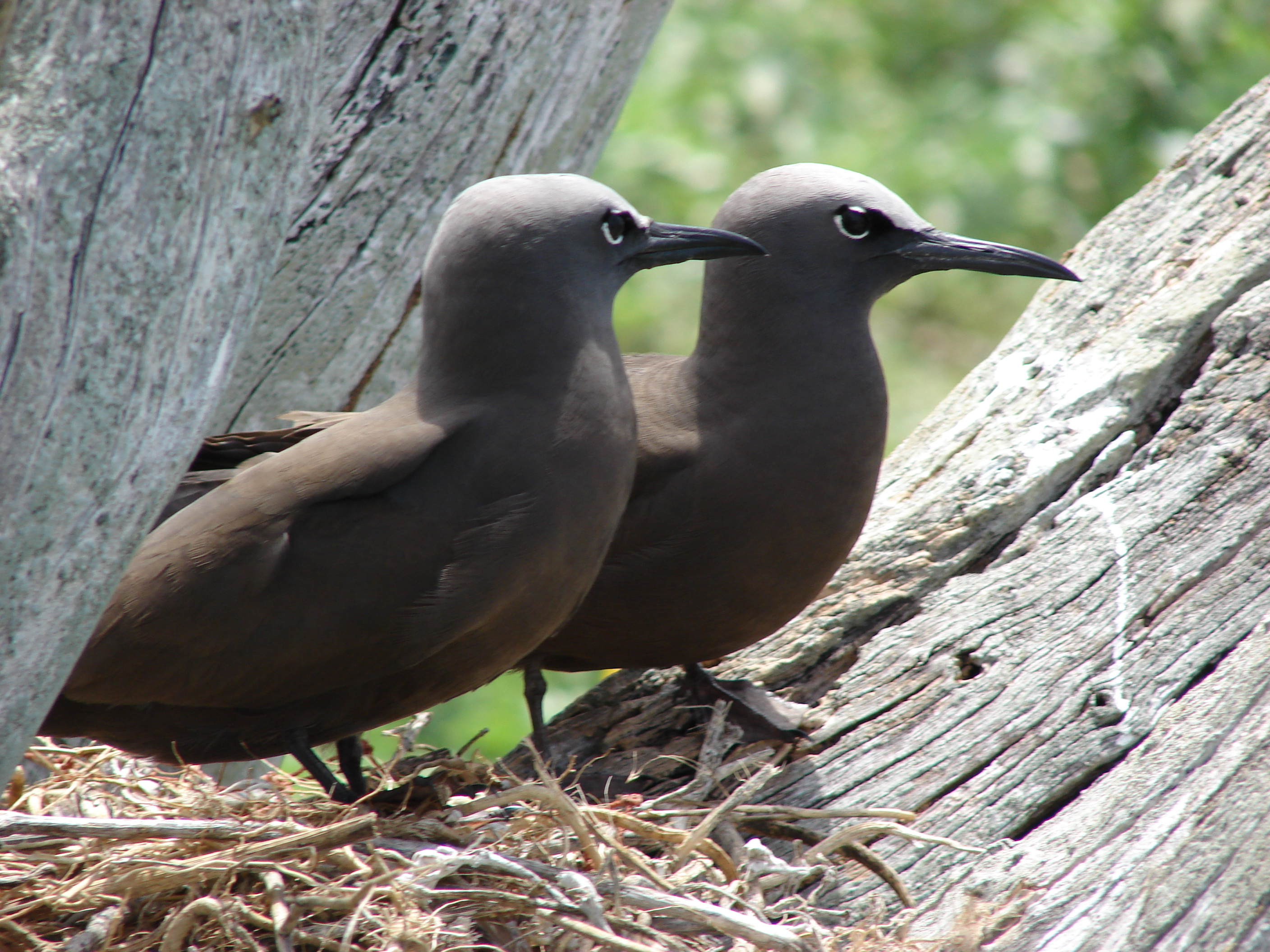 Casuarina equisetifolia (stump with noddy nest). Location: Midway Atoll, Eastern Island